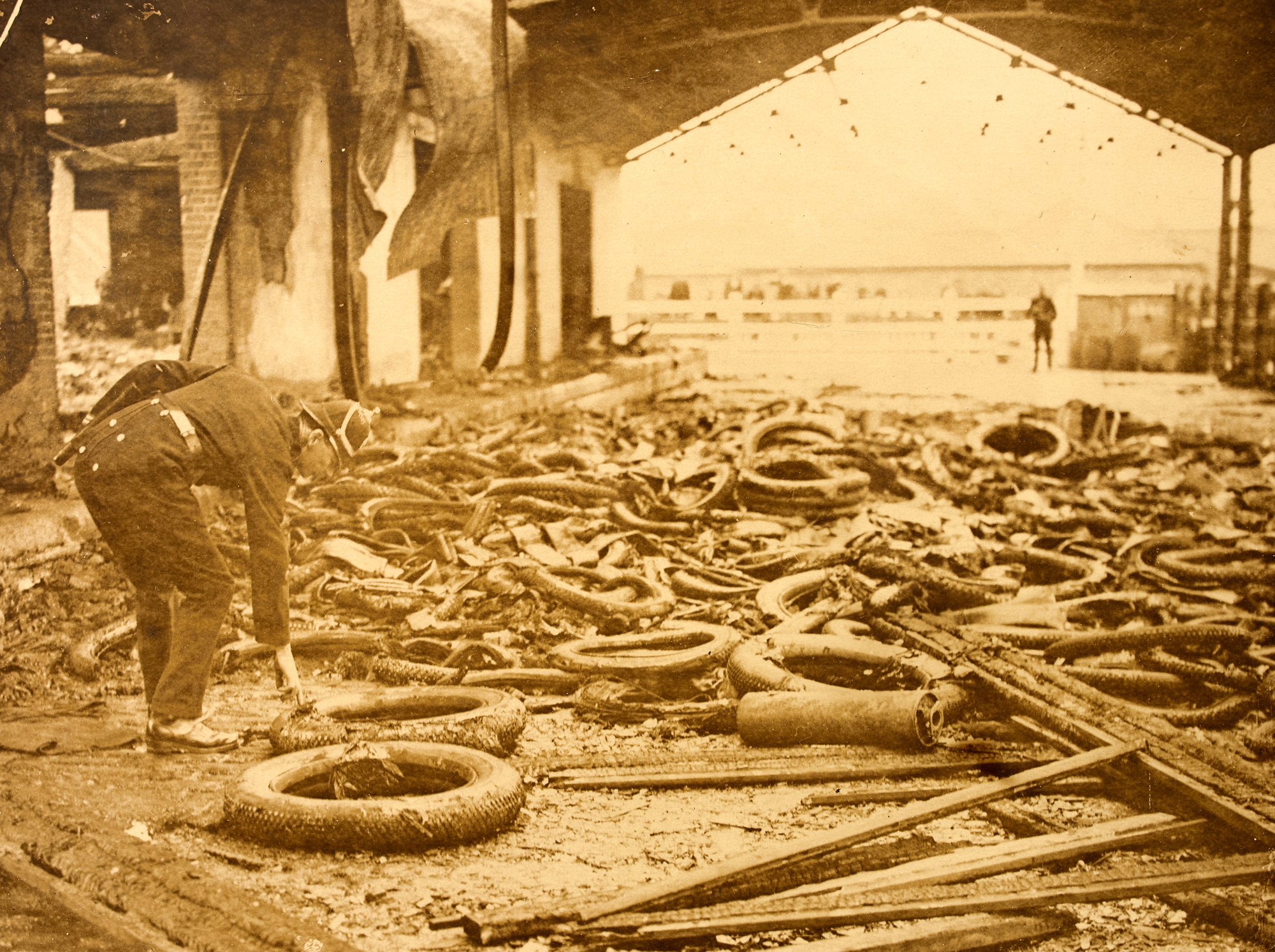 Aftermath of a fire at the British and Irish Steam Ship Co. Warehouse Date: Thursday, 5 May 1921 NLI Ref.: HOG185